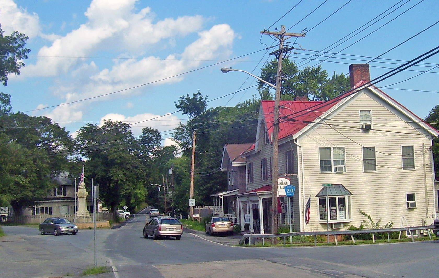 Downtown section of hamlet of Salisbury Mills, in town of Blooming Grove, NY, USA, looking east along Orange County Route 20.